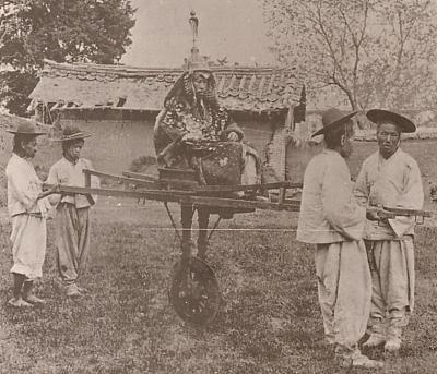 Chohon(Korean Vehicle)